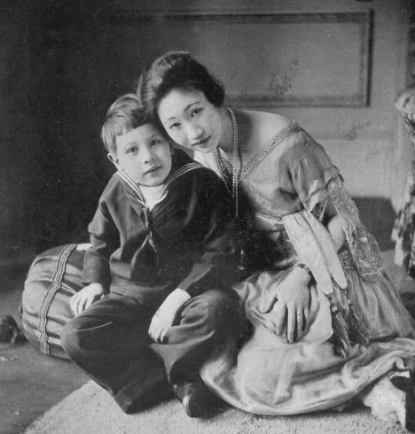 Is a photographic portrait of Hui Oei-lan (then Mrs Beauchamp Caulfield-Stoker) and her only son from that marriage, Lionel Montgomery Caulfield-Stoker.